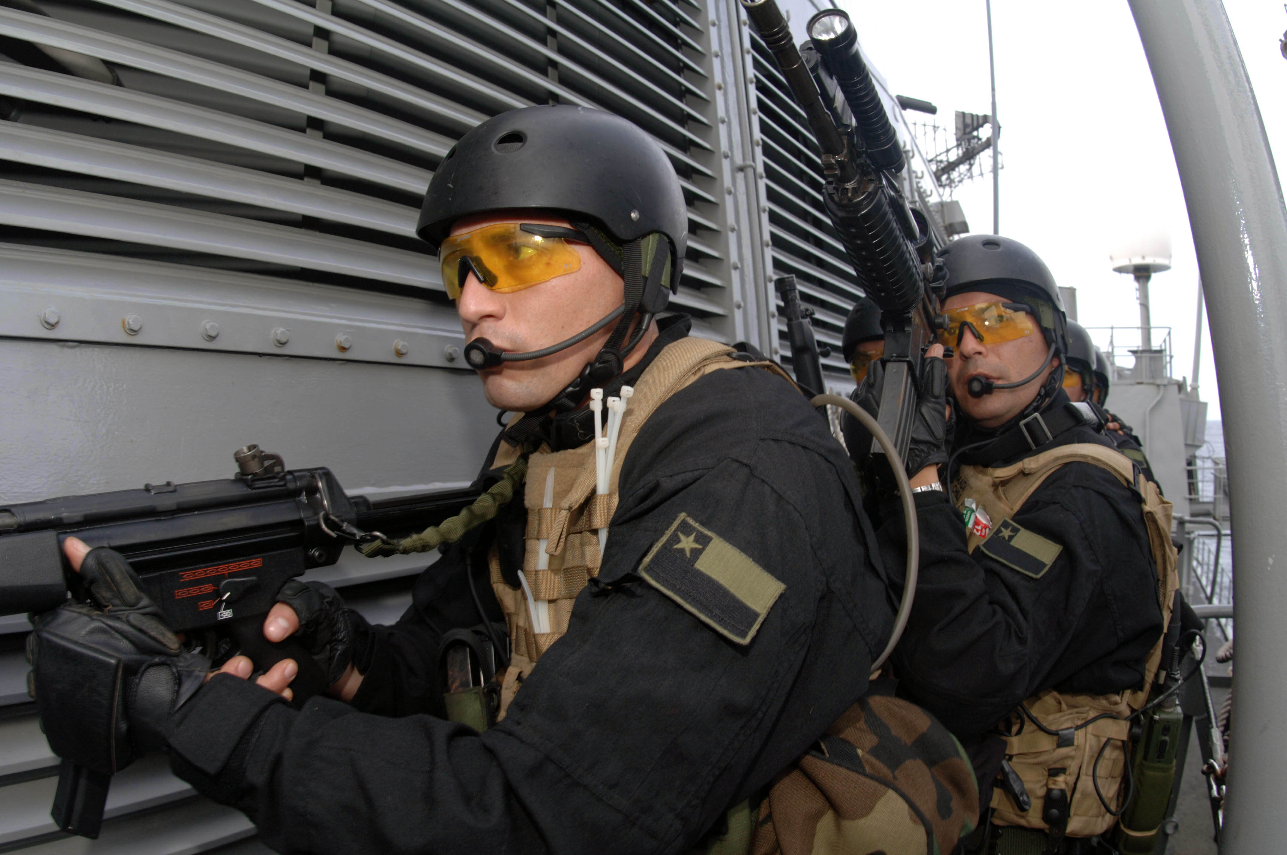 Chilean Special Forces simulates Maritime Interdiction Operations (MIO) aboard the Chilean M-class frigate Blanco Encalada (FF 15), during exercise PANAMAX 2006. Civil, naval and air forces from 18 countries have gathered in Panama to conduct the multi-national training event for the defense of the Panama Canal. PANAMAX 2006 is multinational training exercise tailored to the defense of the Panama Canal, involving civil and military forces from the region.